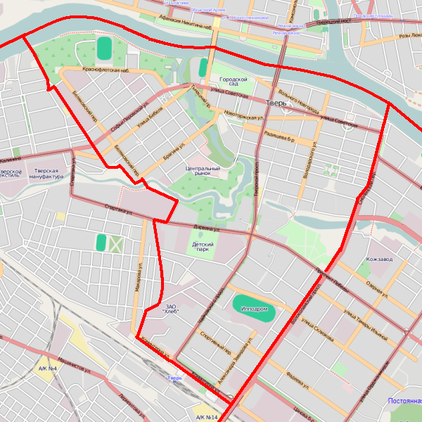 The map of Central district of Tver, Russia - This map may be incomplete, and may contain errors. Don't rely solely on it for navigation.